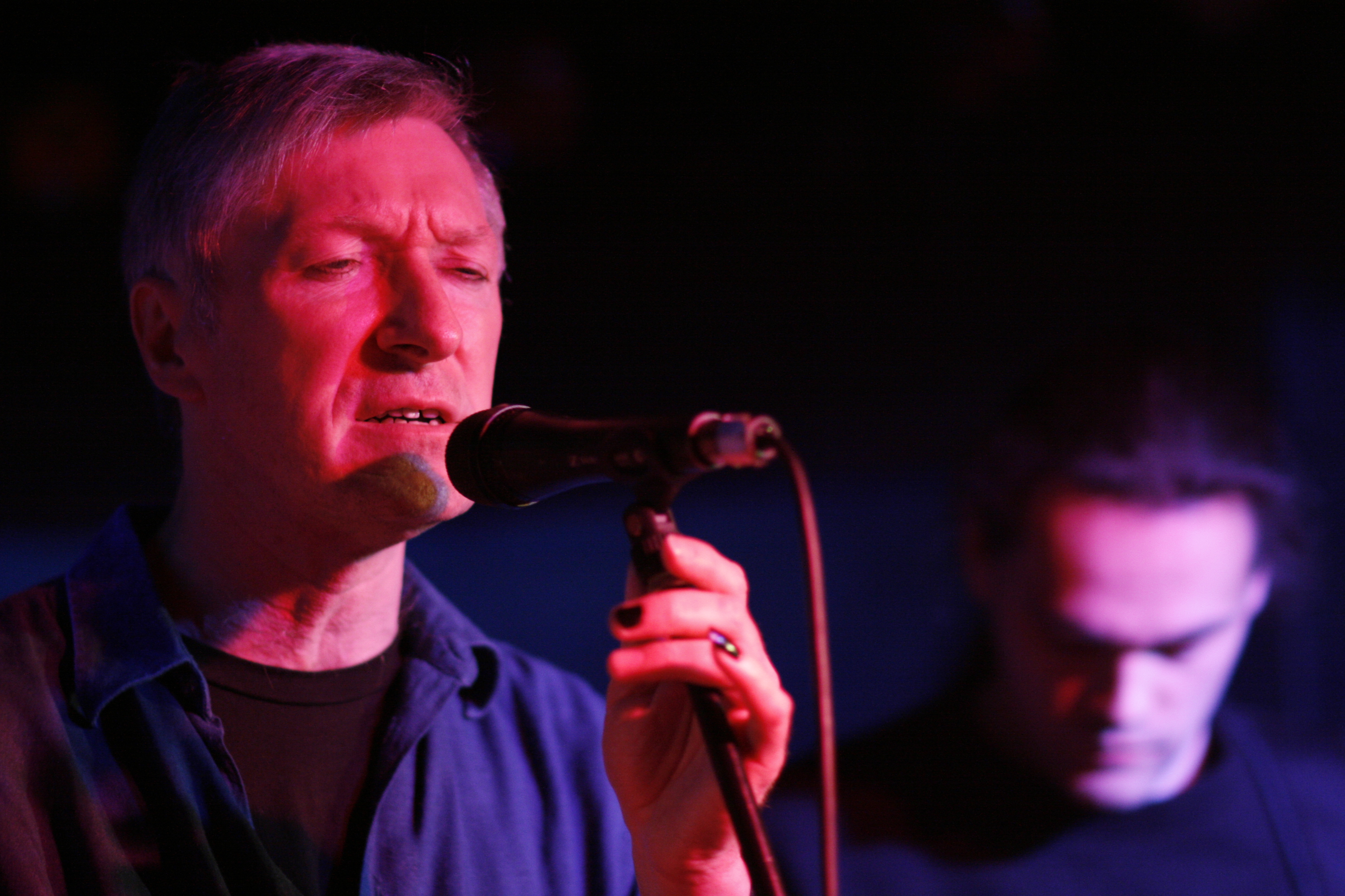 Guerre Froide Live at The Klub in Paris